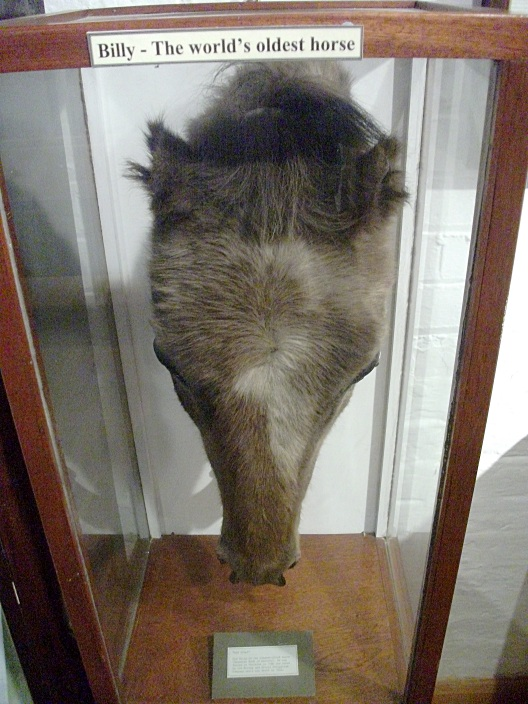 Glass cabinet display of the head of "Old Billy", the worlds longest lived horse, in Bedford Museum.